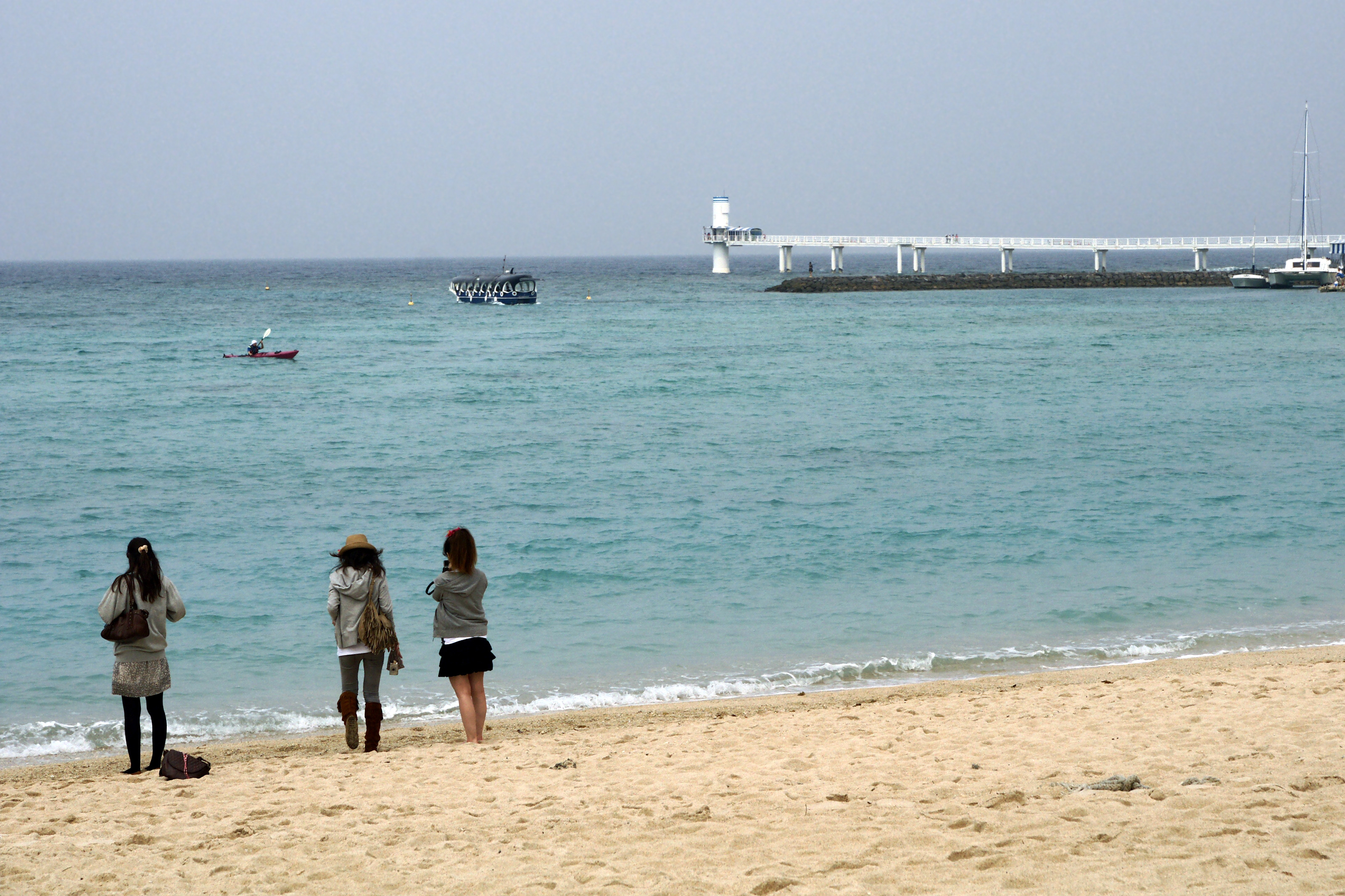 Cape Busena, Nago, Okinawa prefecture, Japan